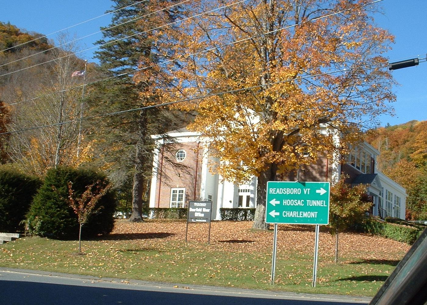 Monroe Town Hall, Monroe, Massachusetts